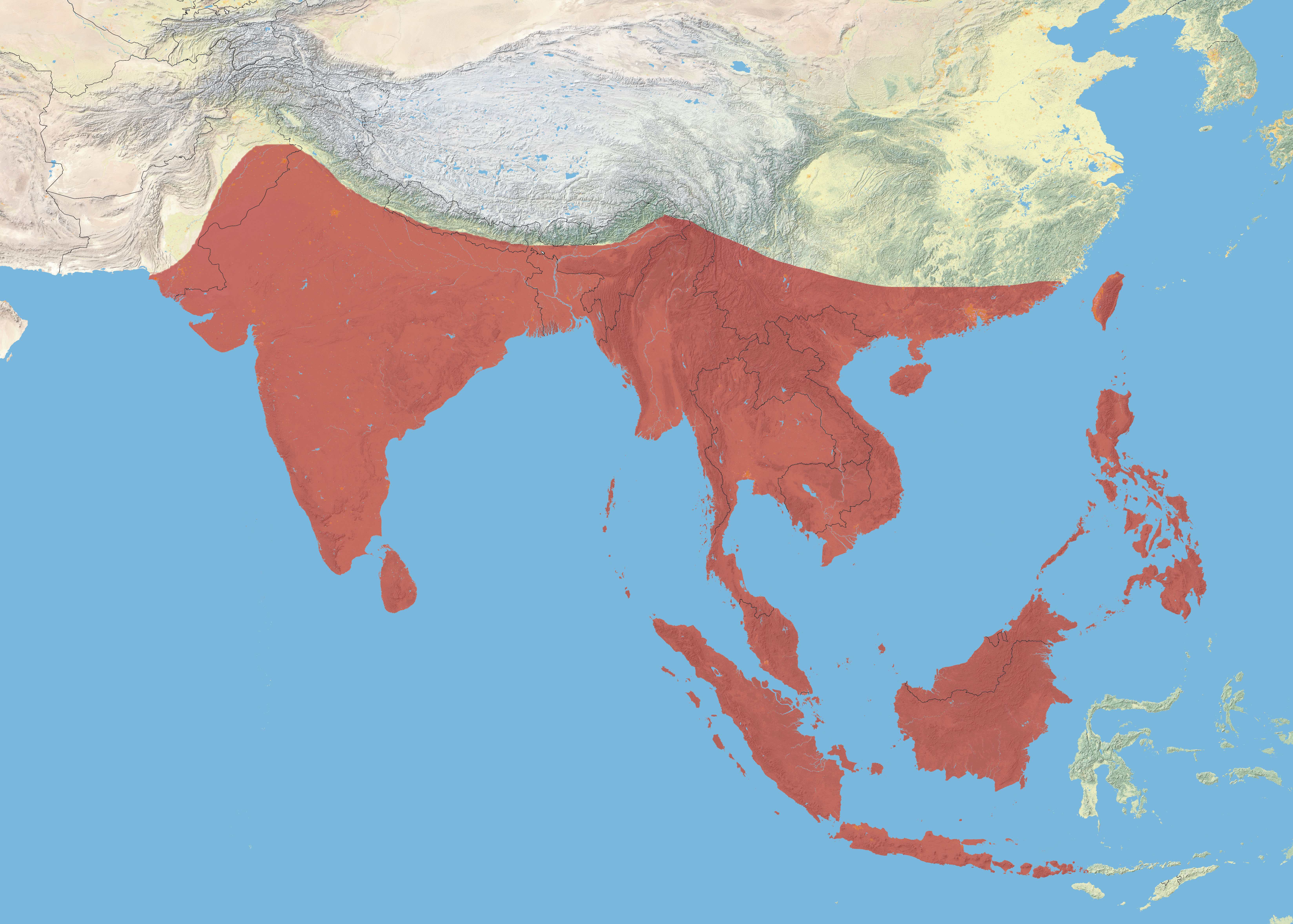 The Distribution of the Black-naped Monarch